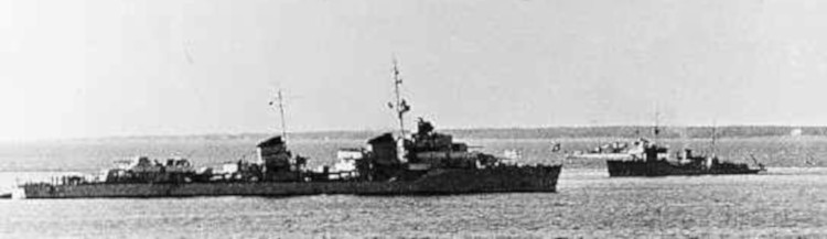 An unidentified Project 7U destroyer in the Black Sea